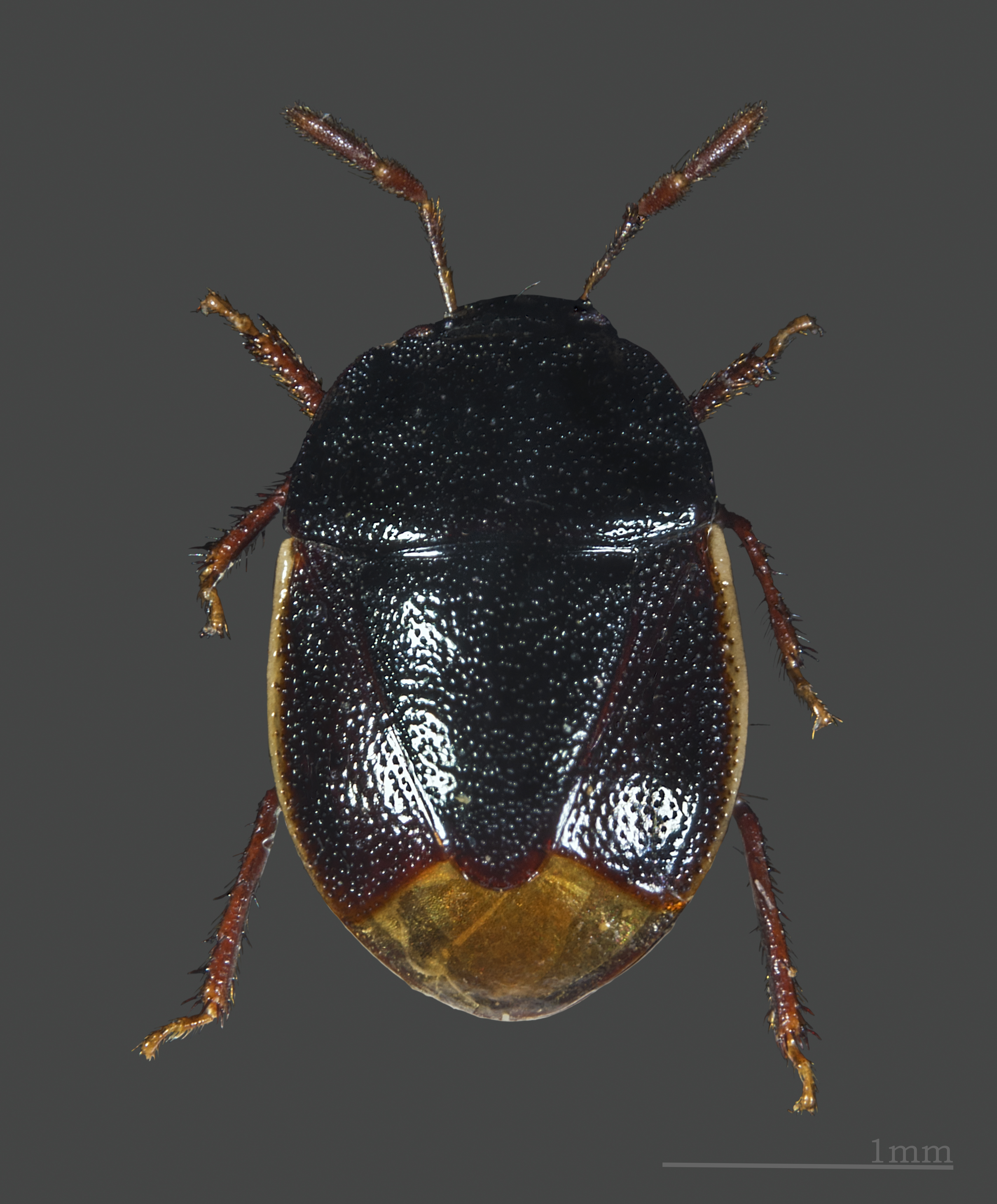 Legnotus limbosus